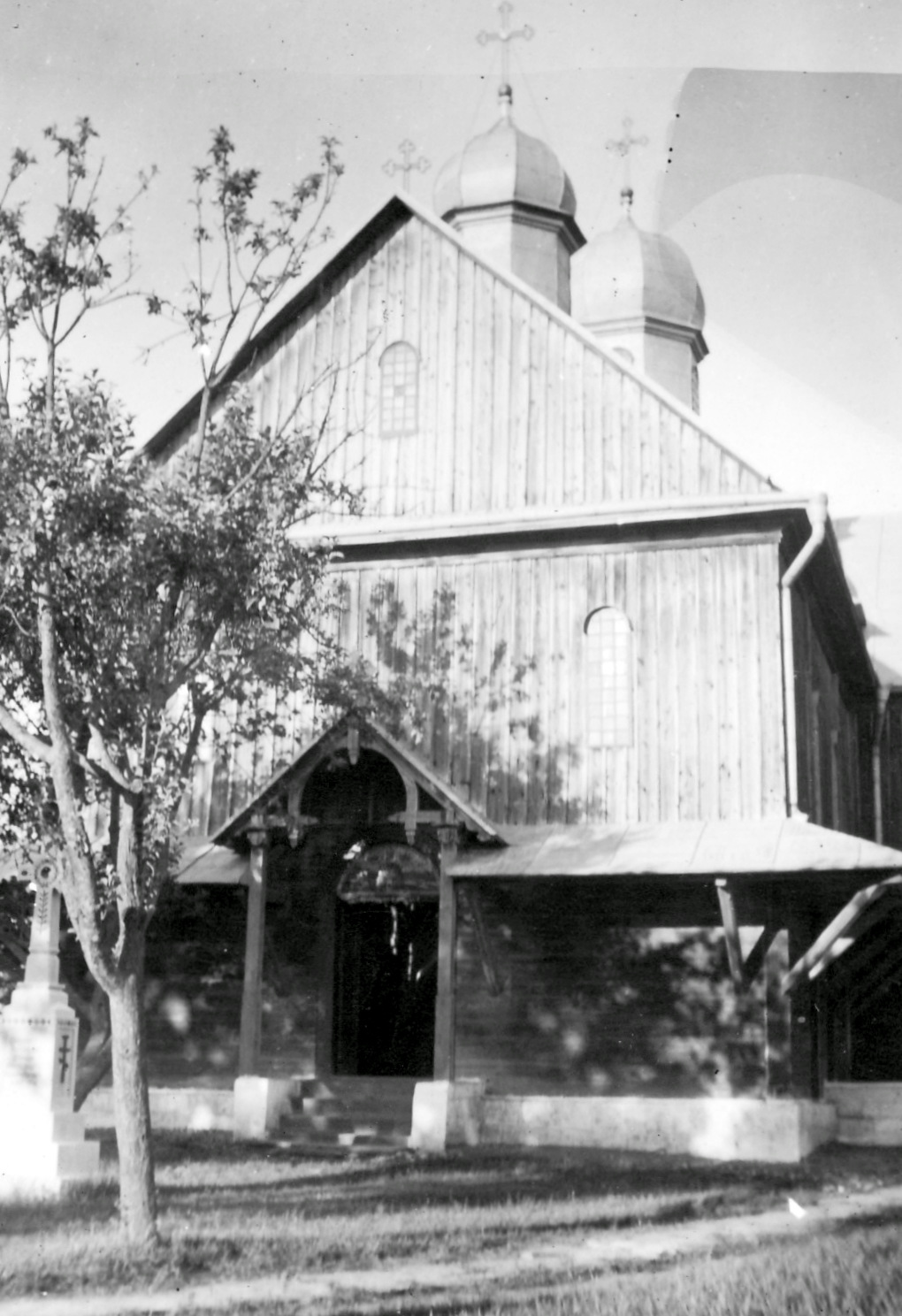 Church in Chisălău, Cozmeni (Cernăuți region, Ukraine)